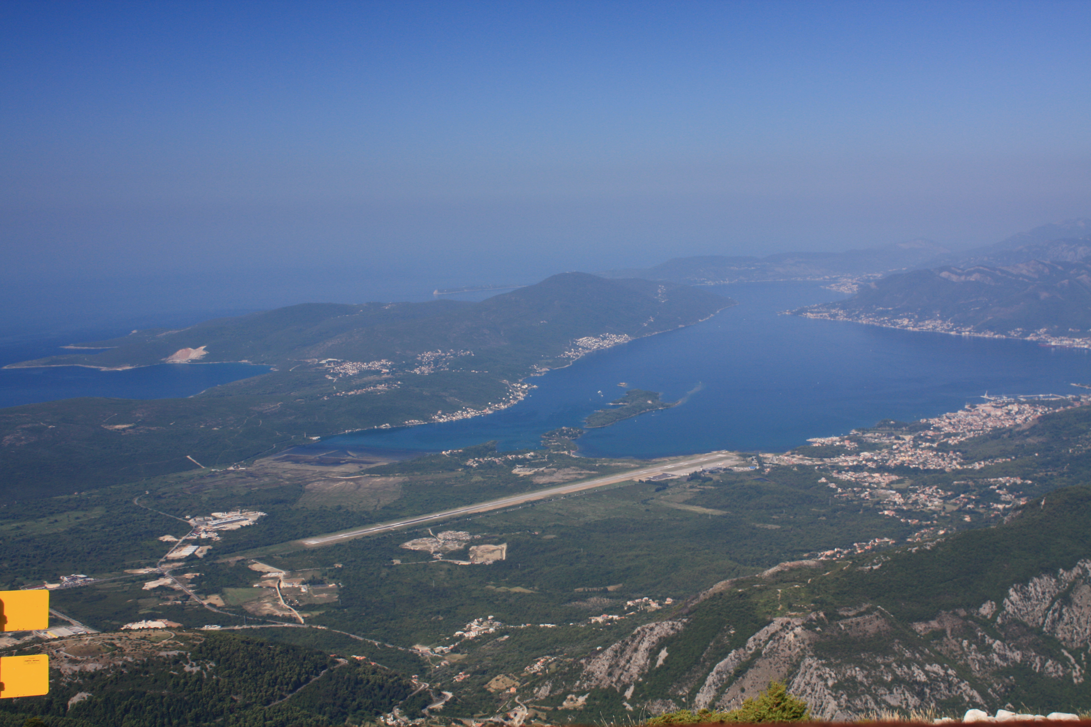 Airport in Tivat, Montenegro - view from Lovćen National Park